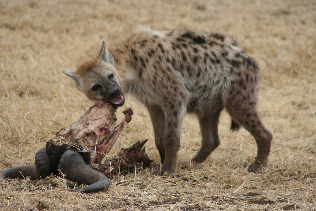 A spotted hyena gnawing on a wildebeest skull in Tanzania